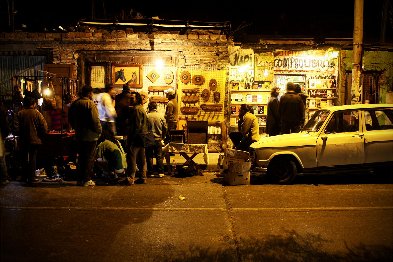 Shops on Av. Marcelo T. de Alvear, at the Paseo de las Artes in Barrio Güemes, Córdoba, Argentina